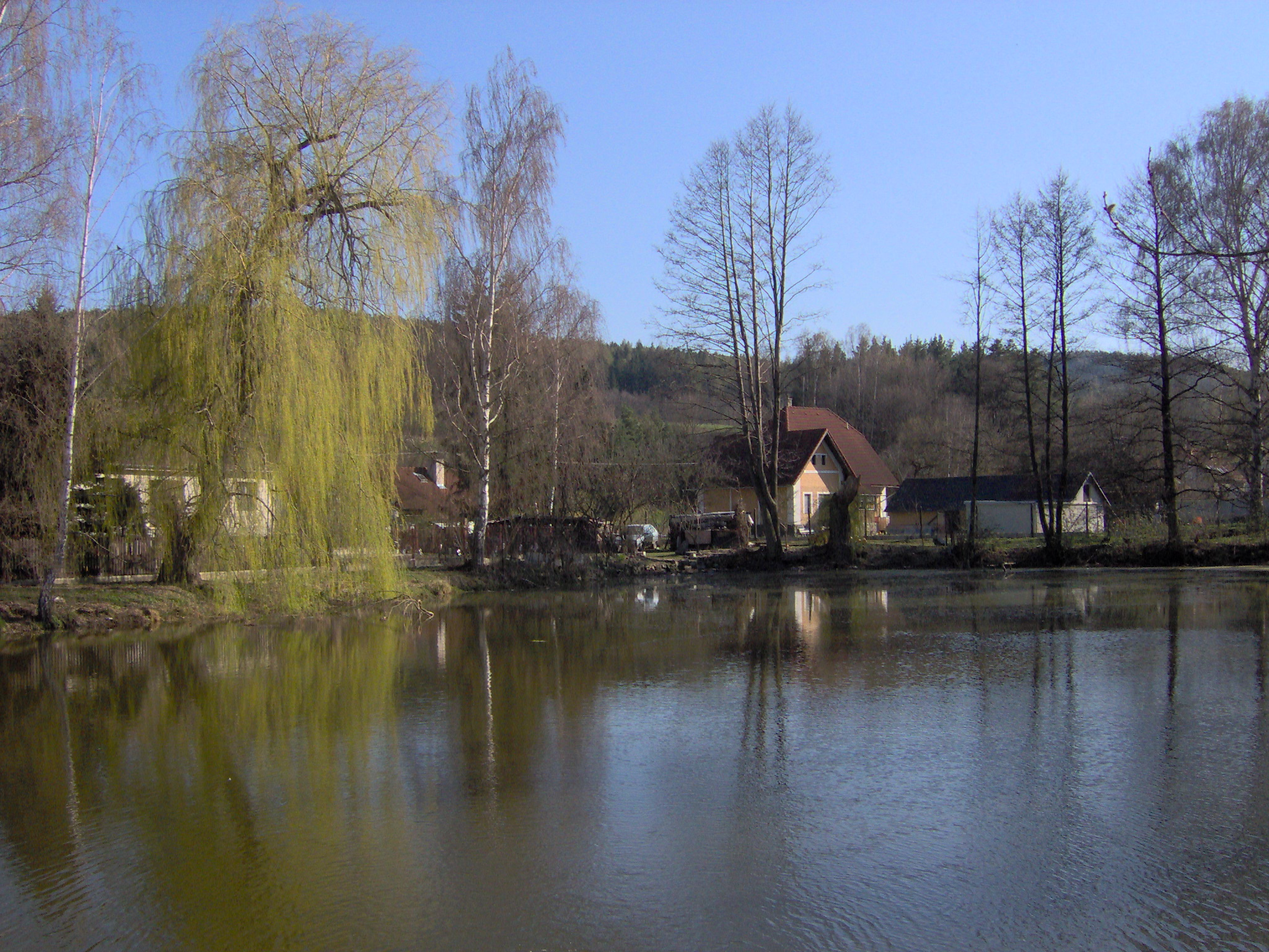 Pond in Nihošovice, Strakonice District, Czech Republic